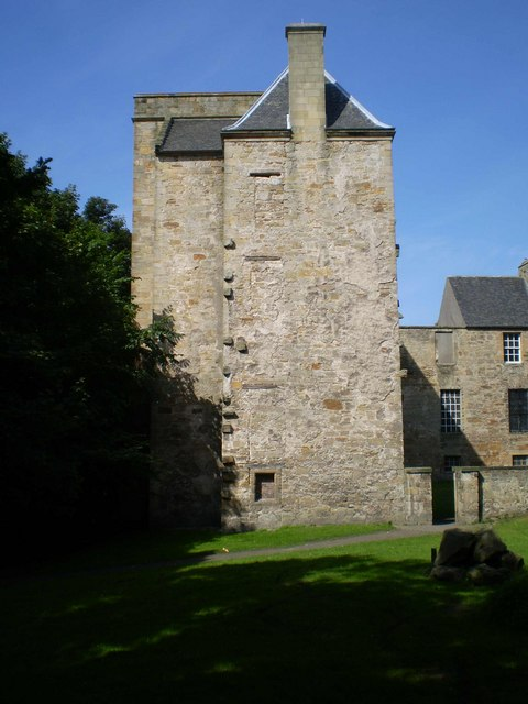 Kinneil House, Bo'ness, Scotland, from the south